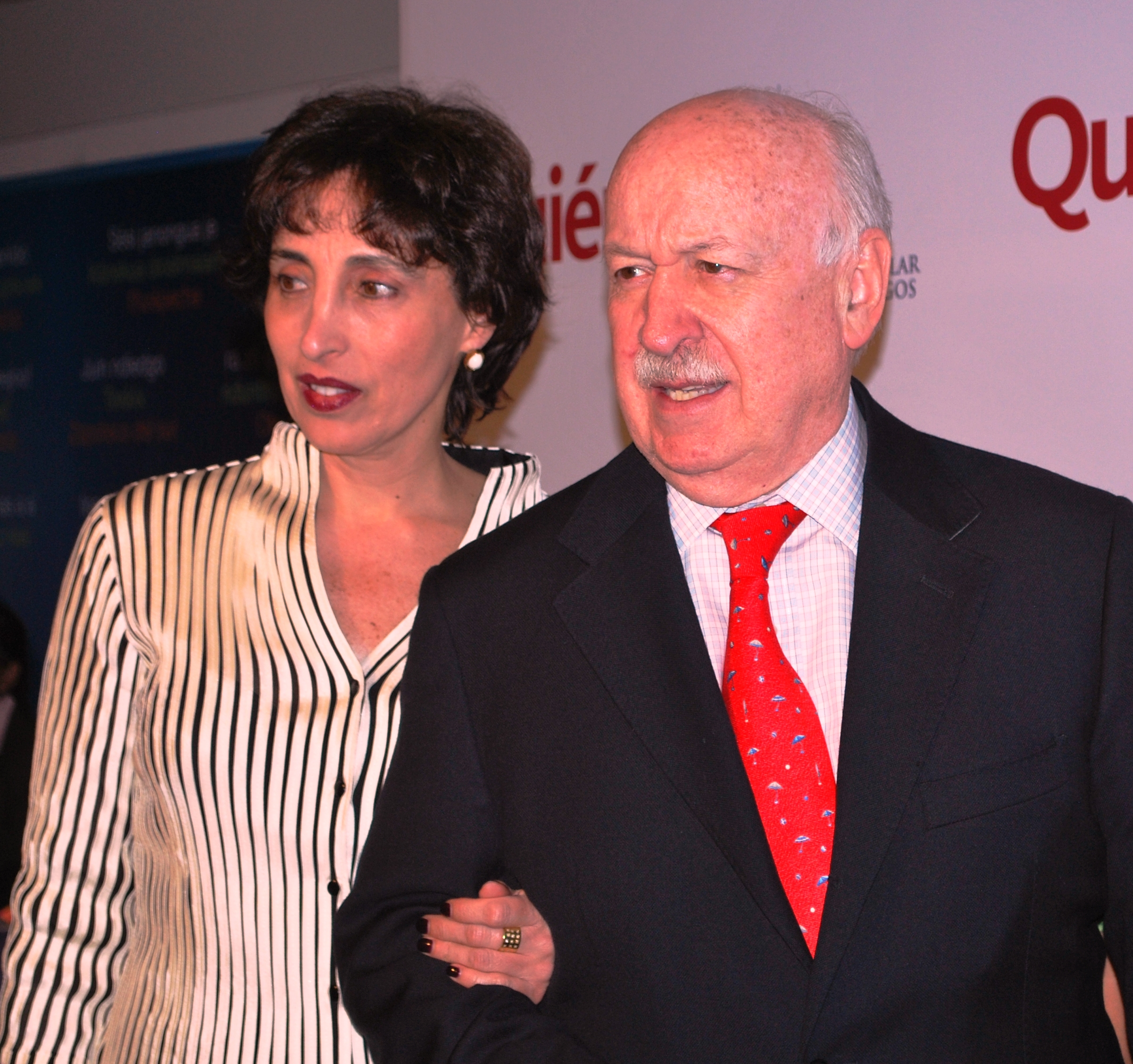 Bruno Newman at the 6th anniversary celebration of the Museo de Arte Popular in Mexico City